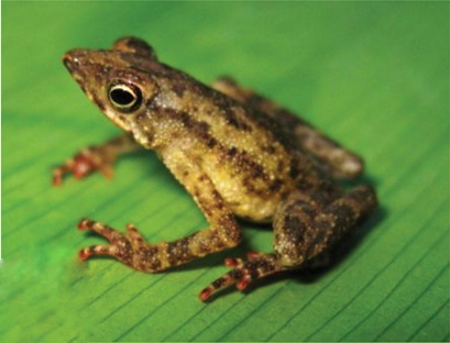 Cropped from File:Amazophrynella diversity.jpg